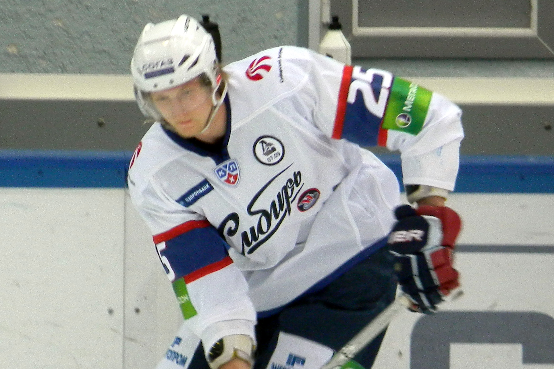 Maxim Ignatovich, an ice-hockey player from HC Sibir Novosibirsk